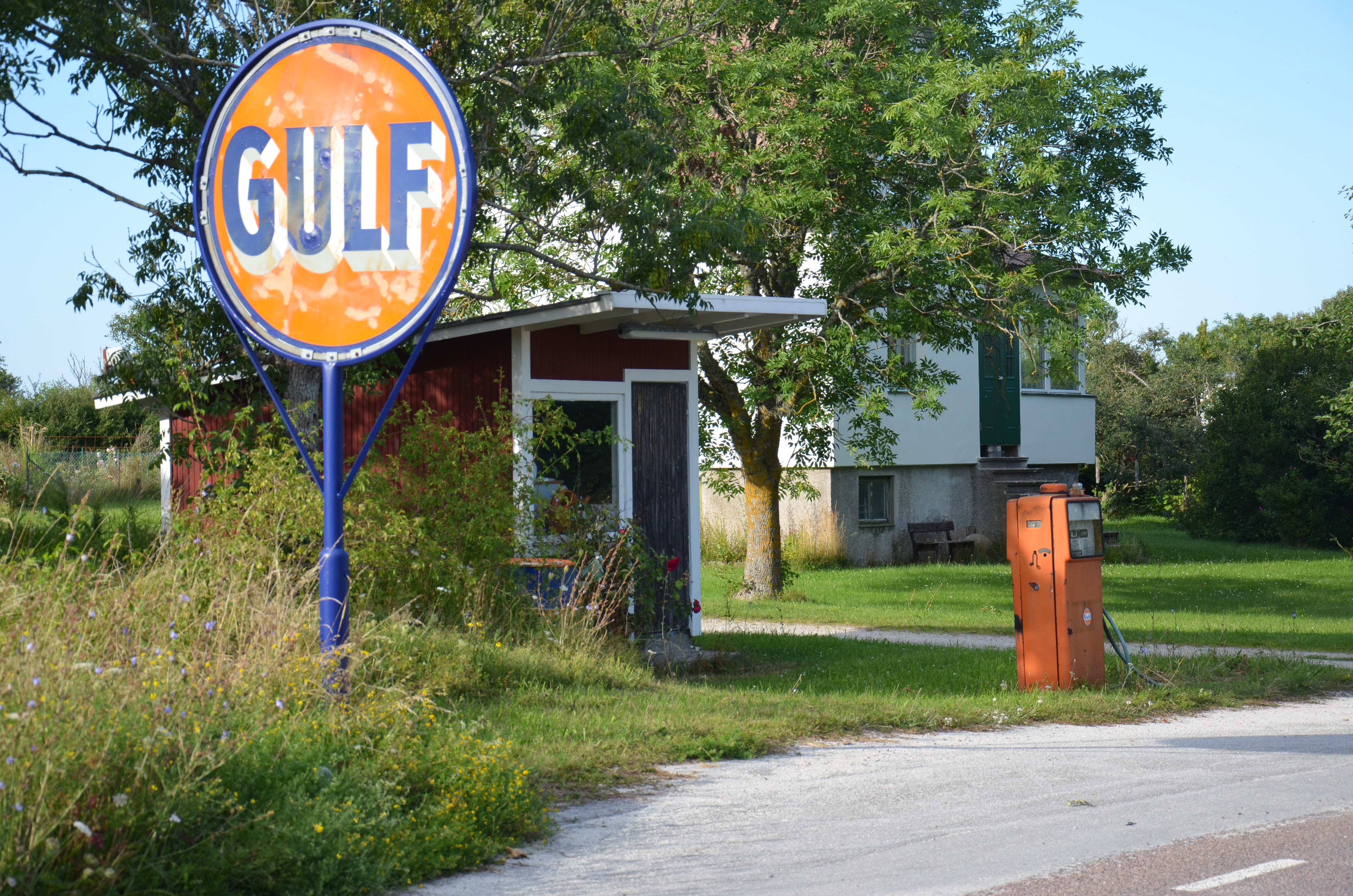 Nedlagd Gulf-mack väster om Katthammarsvik på Gotland